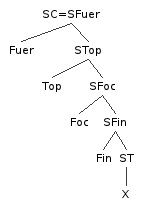 Estrucutra de la Periferia Izquierda (sintagma complementante) de acuerdo con Rizzi (1997)